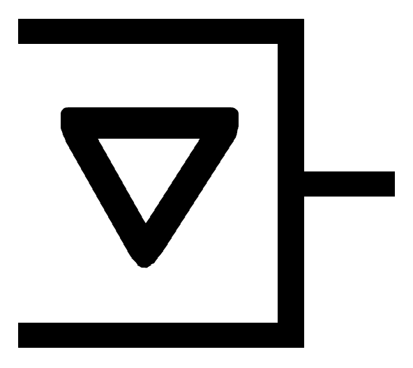 TriState